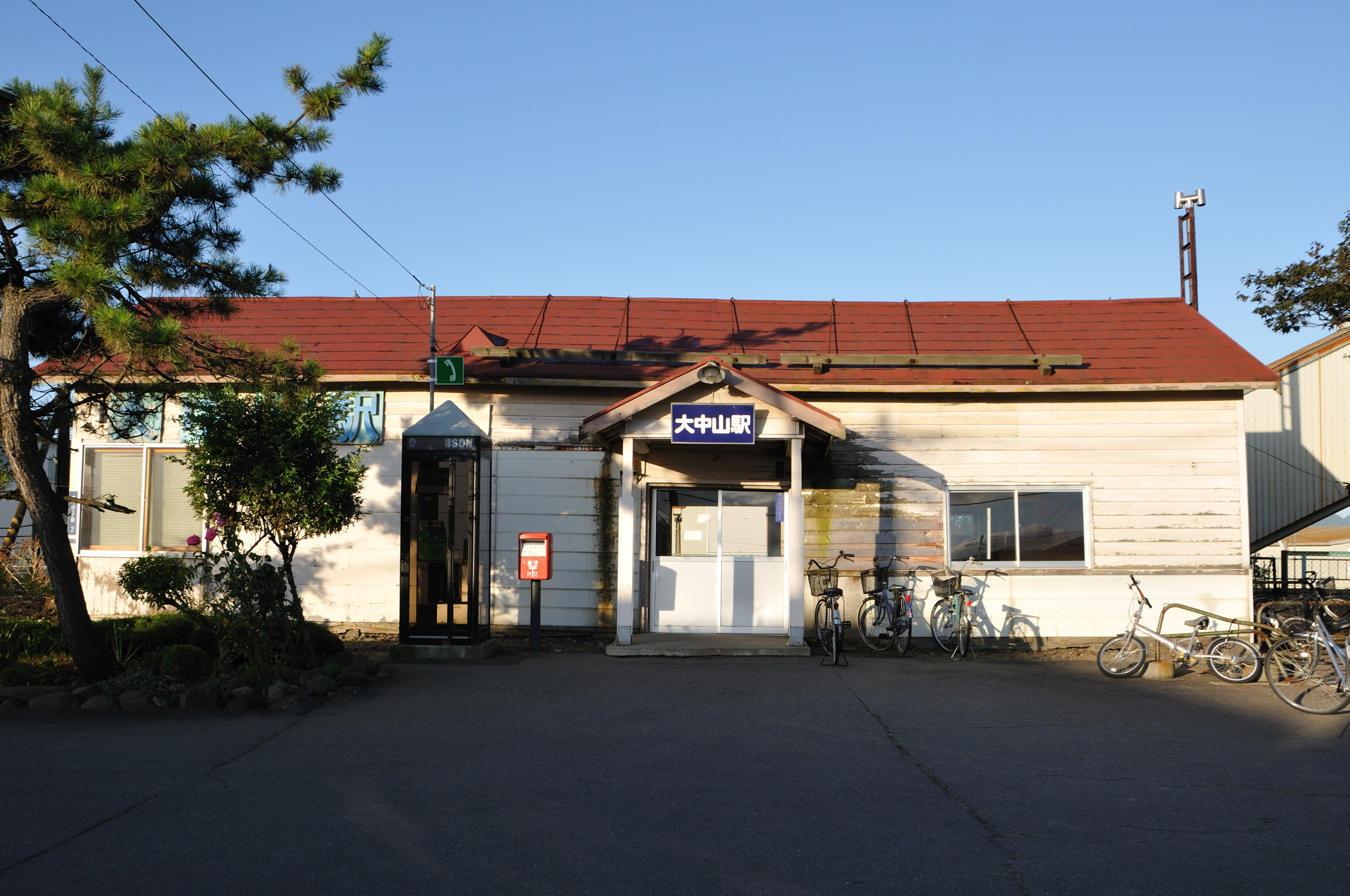 JR Hokkaido Ohnakayama station, Nanae, Hokkaido, Japan